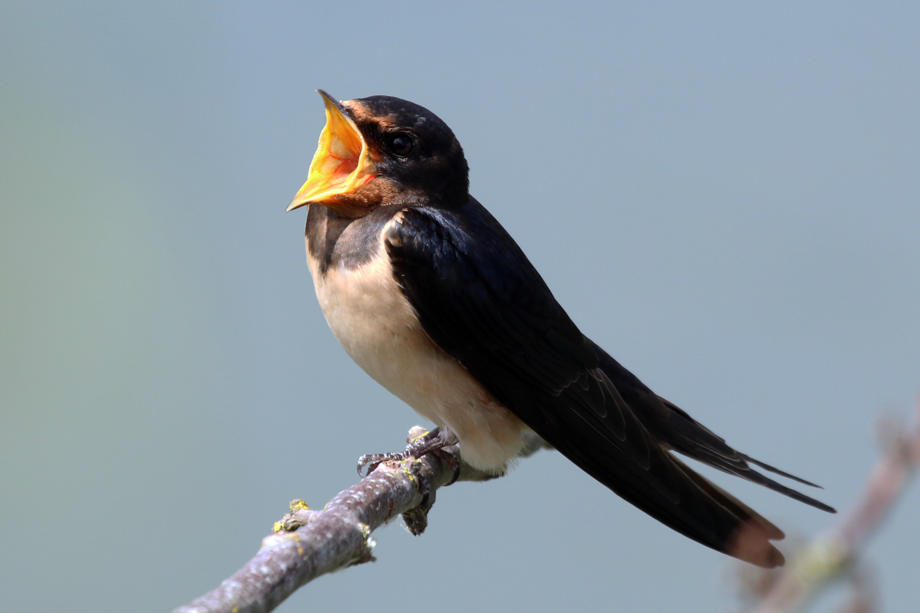 Barn swallow (Hirundo rustica rustica)